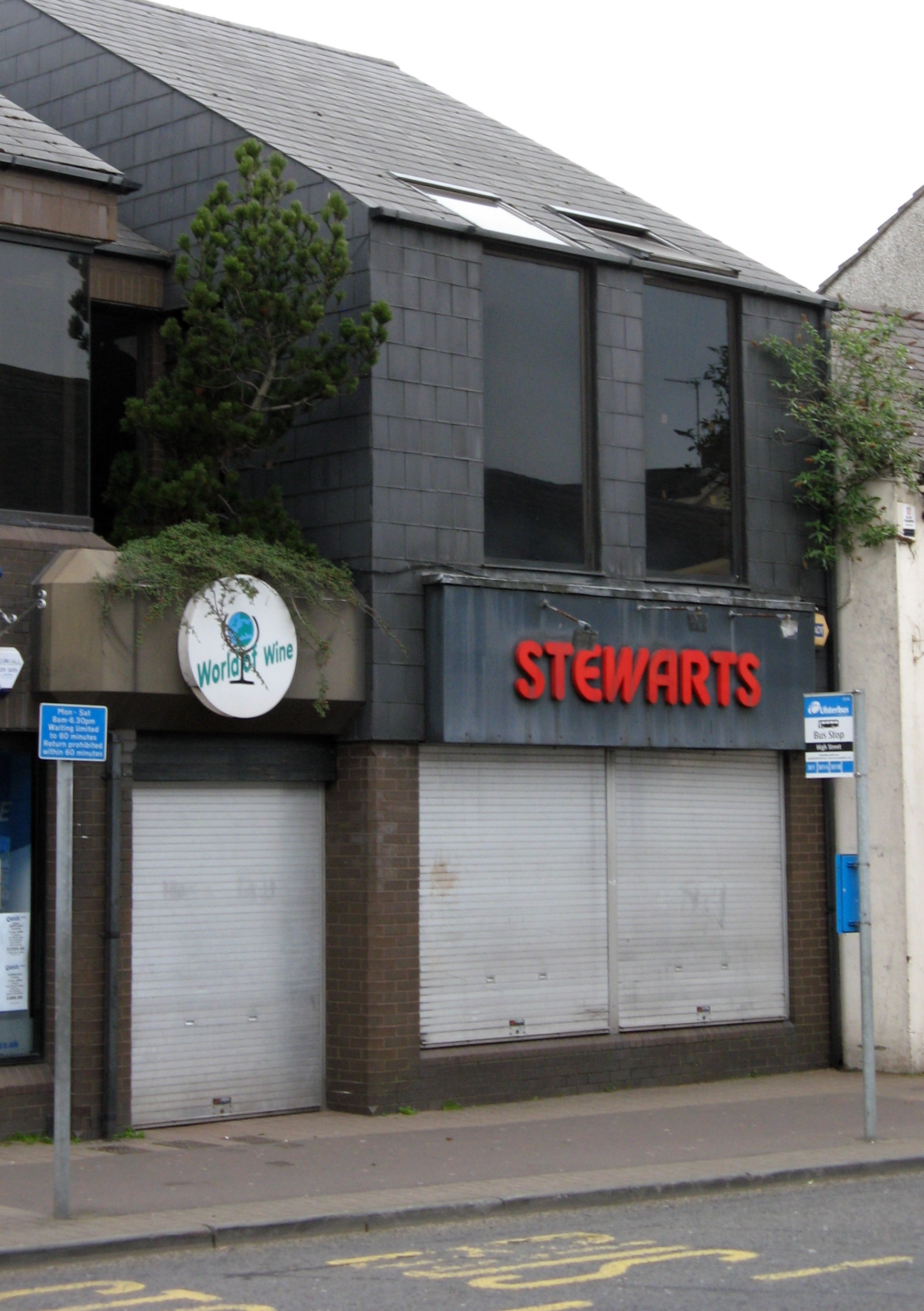 Stewarts off-licence, High Street, Holywood, Northern Ireland